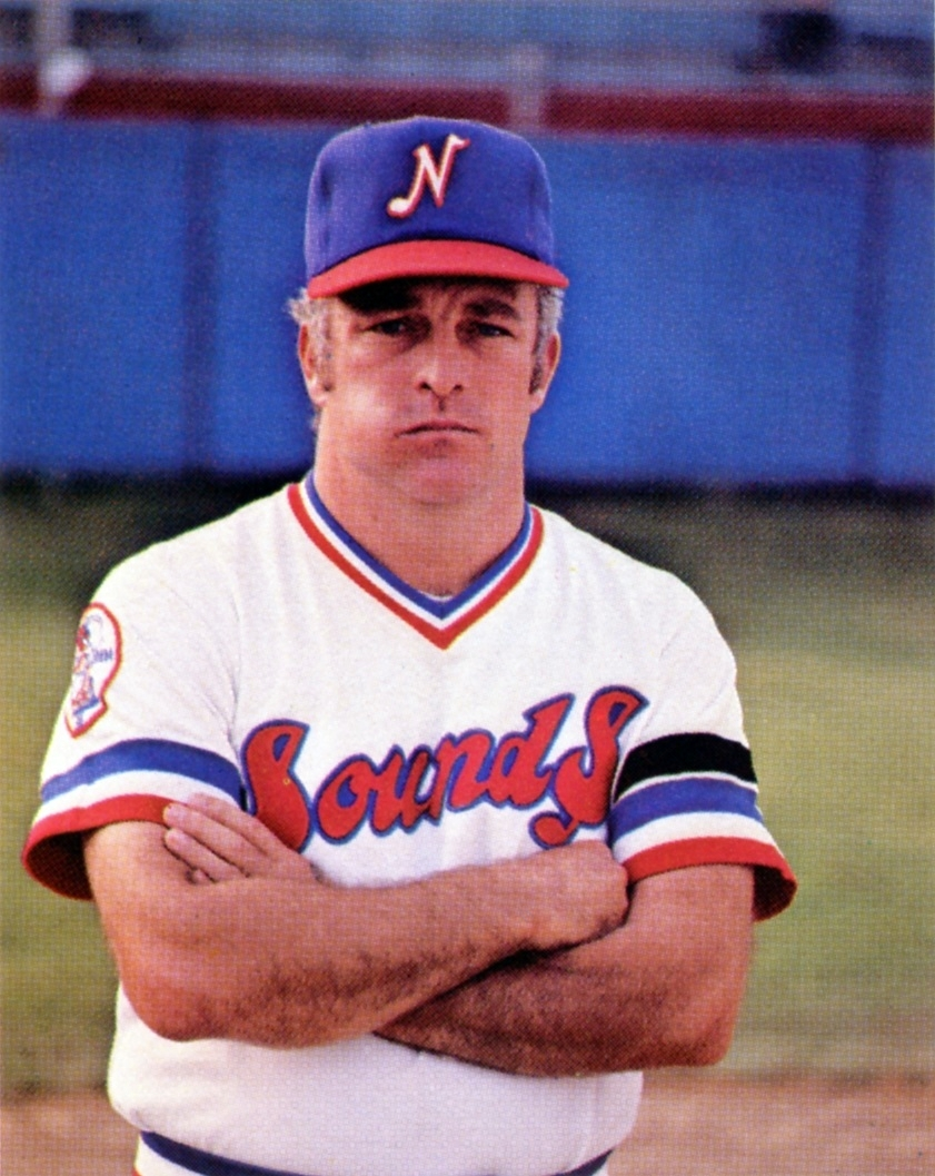 Manager Stump Merrill of the 1980 Nashville Sounds Minor League Baseball team of the Southern League